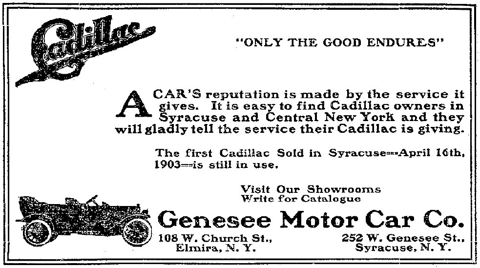 A 1911 Cadillac Advertisement - "Only the Good Endures"